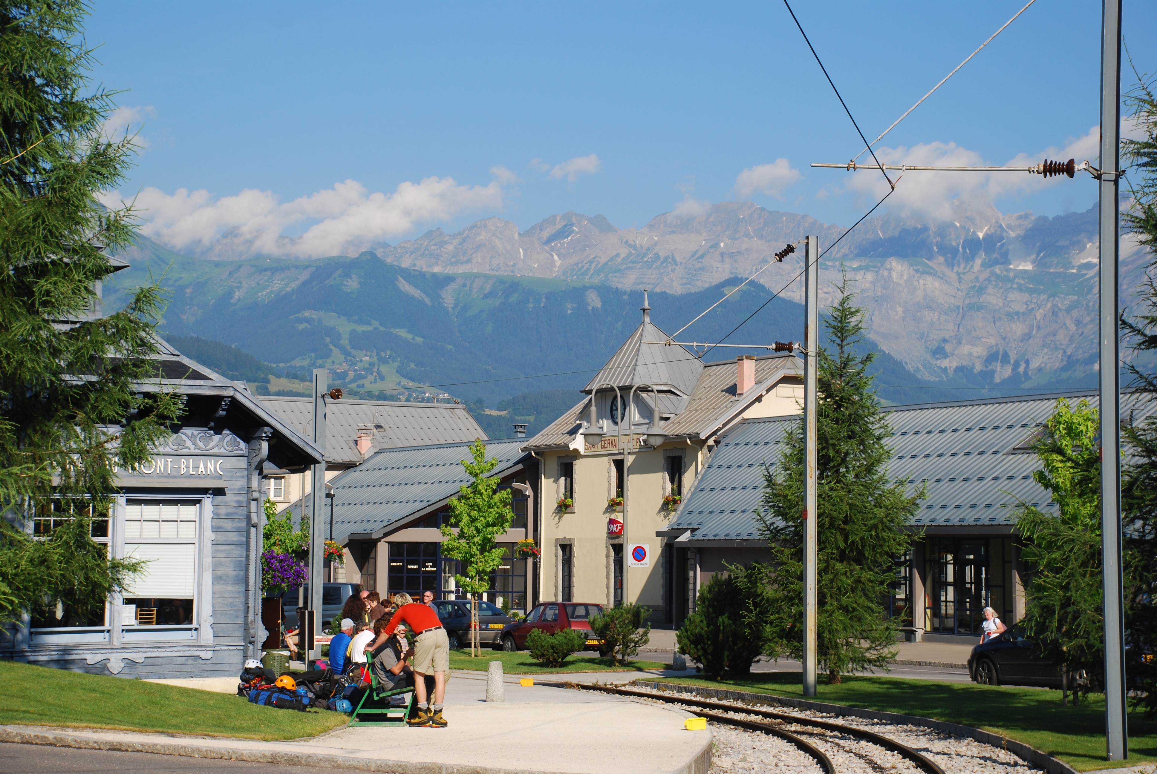 Stations in le Fayet.